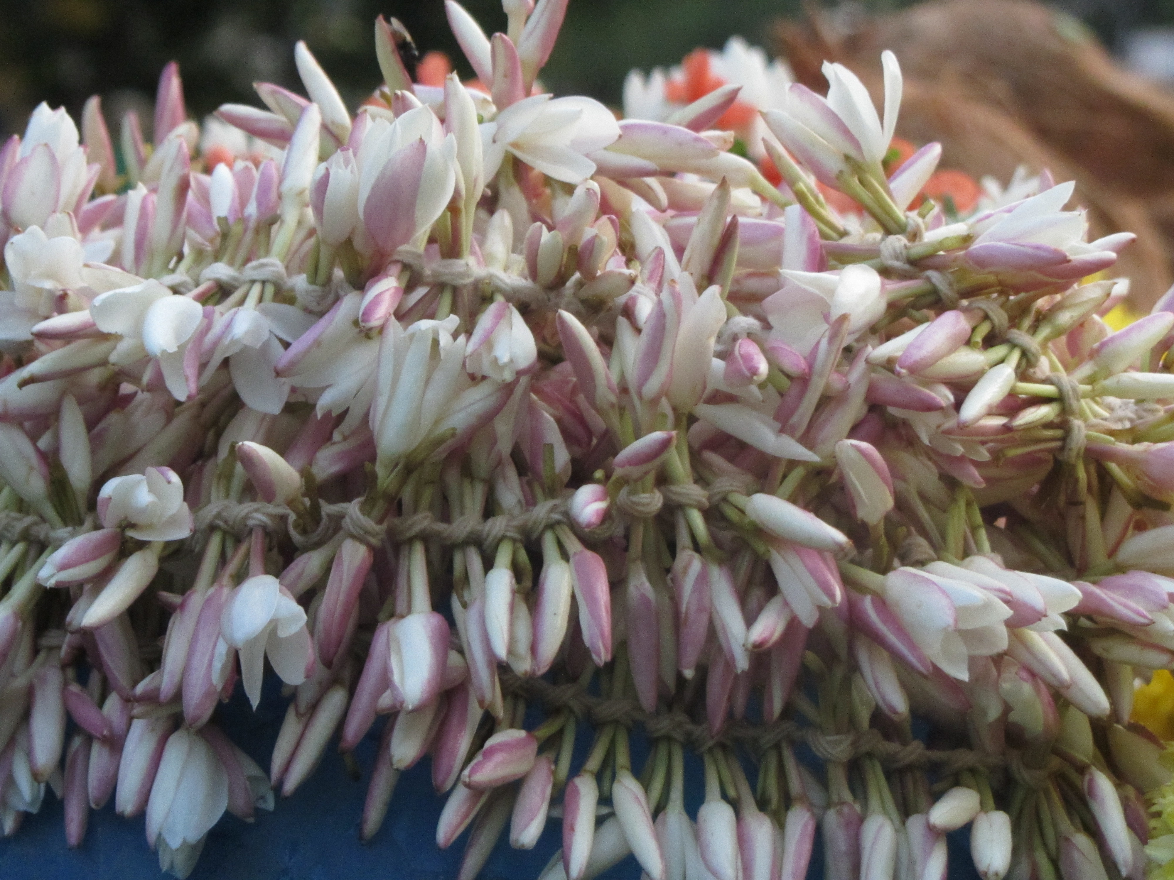 Ladies of Tamil Nadu wear ‘thalavam or red-mullai’ flowers as a hair style.தளவம் எனப்பட்ட செம்முல்லை